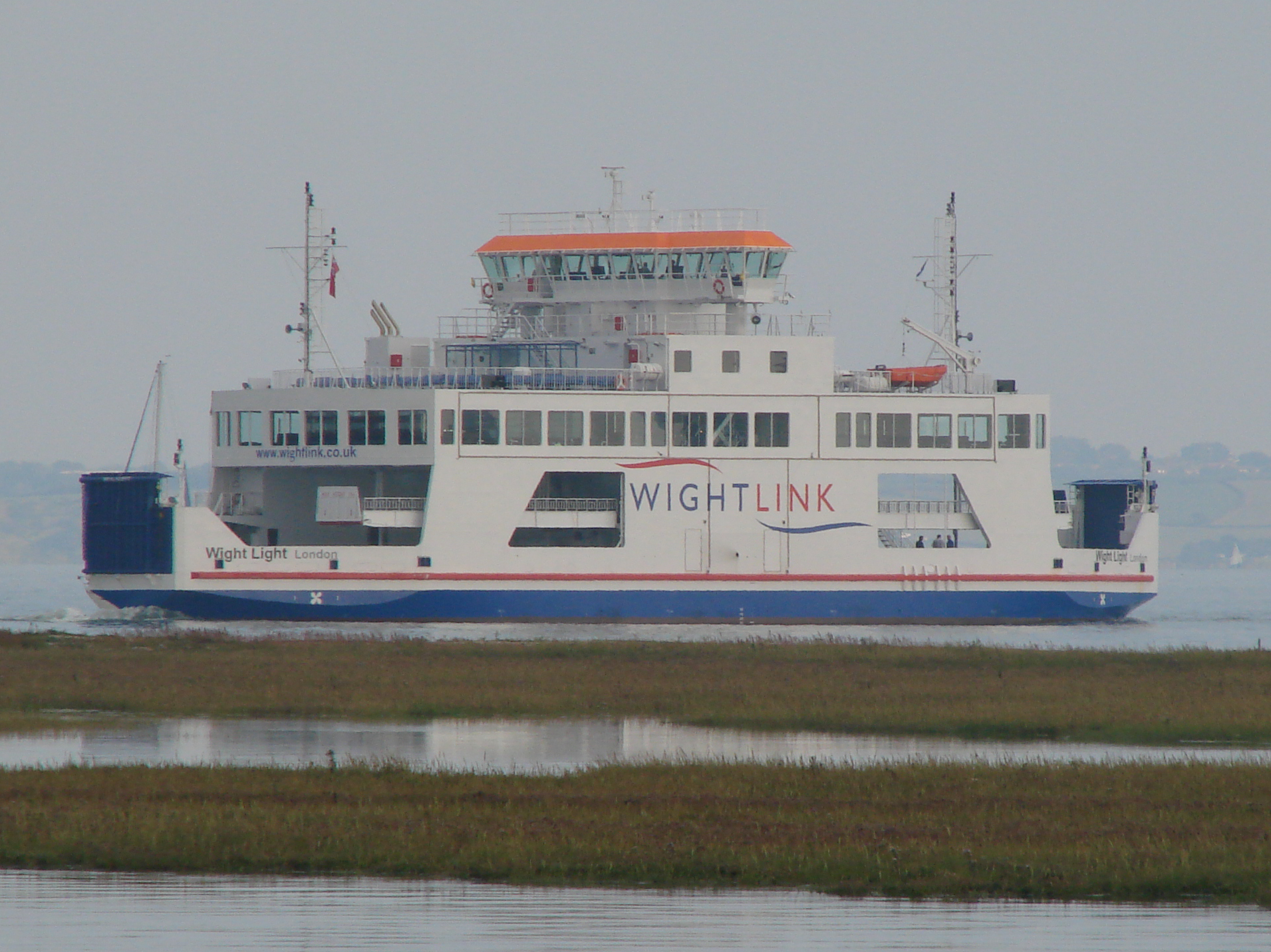 Wightlink ferry Wight Light in Lymington River. IMO Number: 9446972 MMSI Number: 235064784 Callsign: 2BBX5 Length: 60 m Beam: 16 m